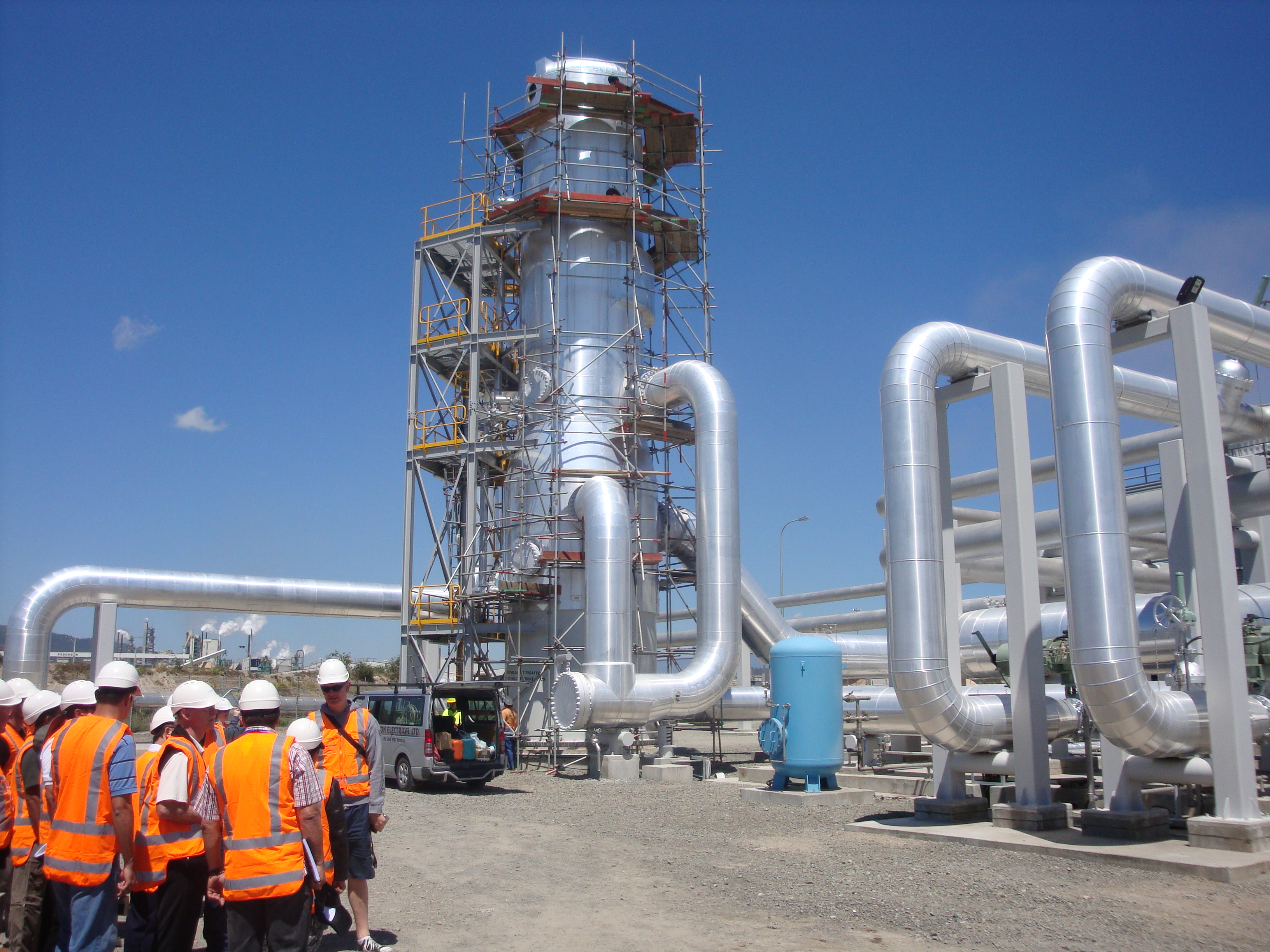 Steam-Water separator at 100MW Mighty River power station at Kawerau, New Zealand.